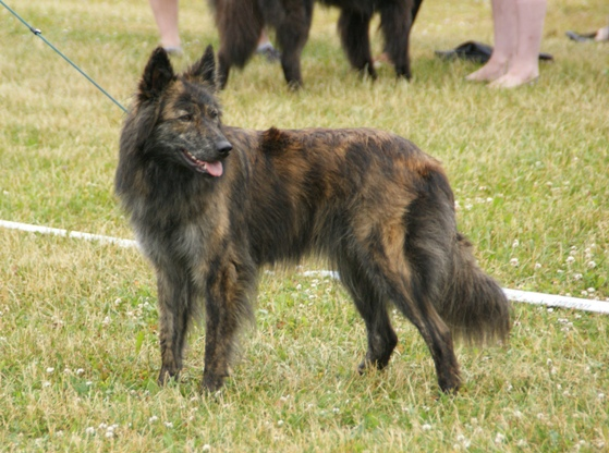 Dutch Shepherd, long-haired variation.